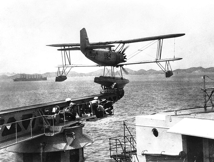 A U.S. Navy Vought O2U-3 or O2U-4 Corsair floatplane of Scouting Squadron 11 is catapulted from the heavy cruiser USS Houston (CA-30), in Far Eastern waters, circa 1931-1932. The collier/seaplane tender USS Jason (AV-2) is in the left distance.